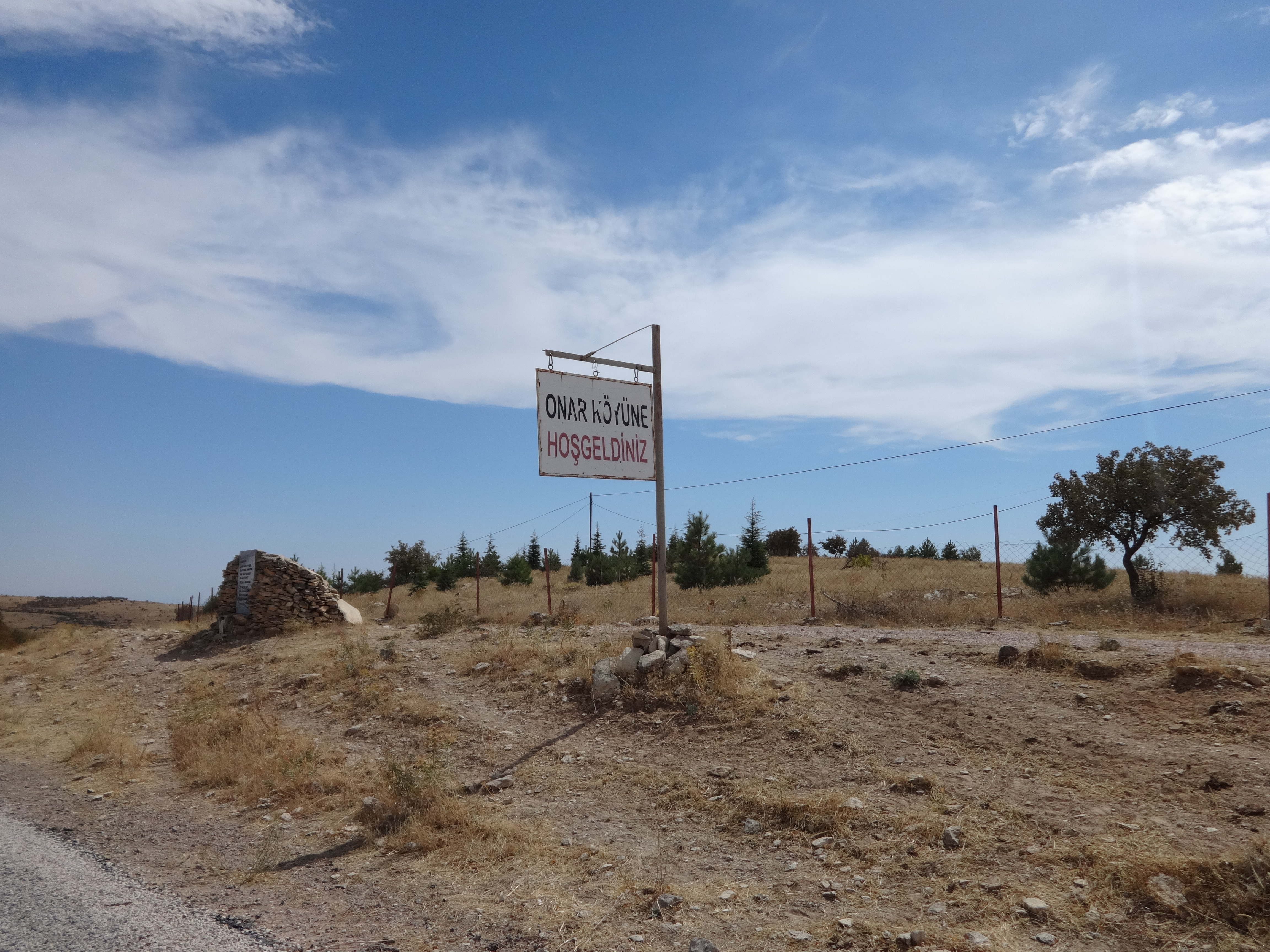 leaving onar village